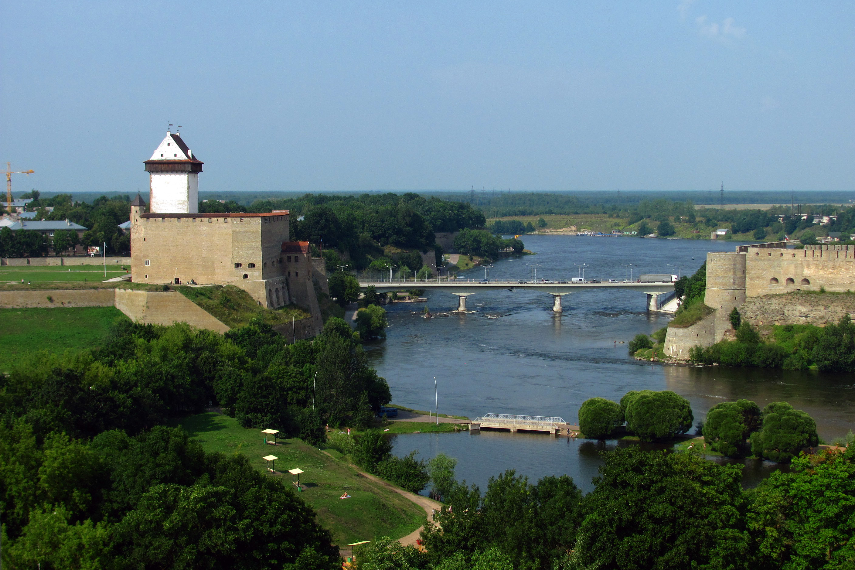 Narva River in Narva. Border of Estonia and Russia.